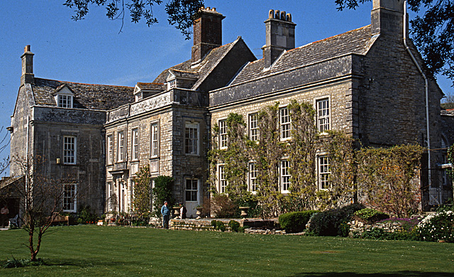 Smedmore House Built in 1620 by Sir William Clavell, Smedmore House was altered in the early C18, and enlarged in 1761. The Clavell family would continue to own it for more than two hundred years. The last Clavell at Smedmore was the Rev. John Clavell, who died a bachelor in 1833, and whose heiress was Louisa Pleydell, the wife of John Mansel. Although the Mansel family did not enjoy a continuous ownership of the house since, it nevertheless is a fourth generation Mansel that owns it today. The house is Grade II* Listed.